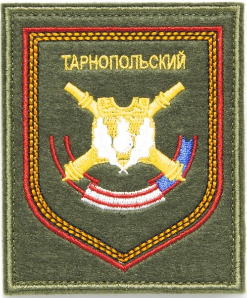 275th Self-propelled Artillery Regiment